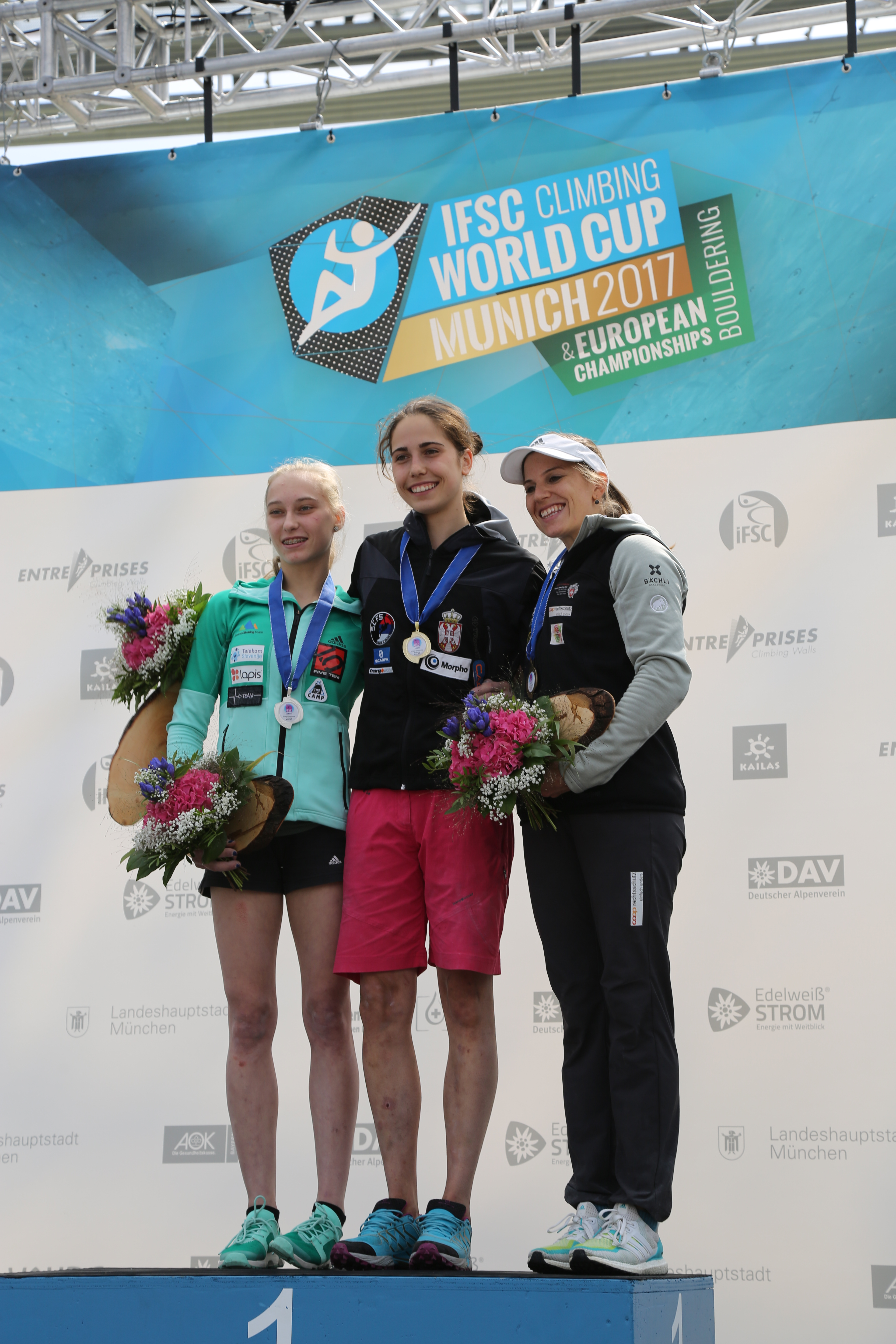 Winners of the European Championship in bouldering, women, at the Boulder Worldcup 2017 in Munich, Germany. 1st Place: Stasa Gejo SER, 2nd Place: Janja Garnbret SLO, 3rd Place: Petra Klingler SUI